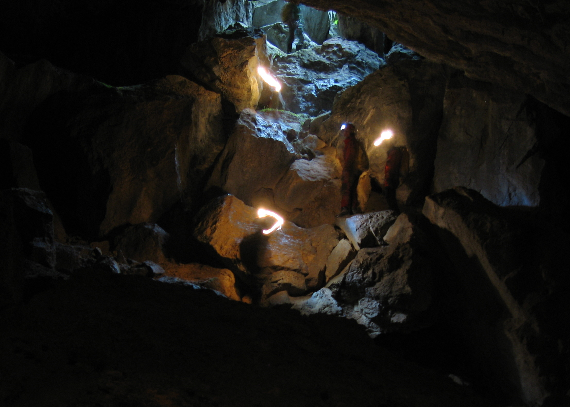 Chaos blocks upon leaving the Water Cave, in the municipality of Arredondo (Cantabria, Spain)